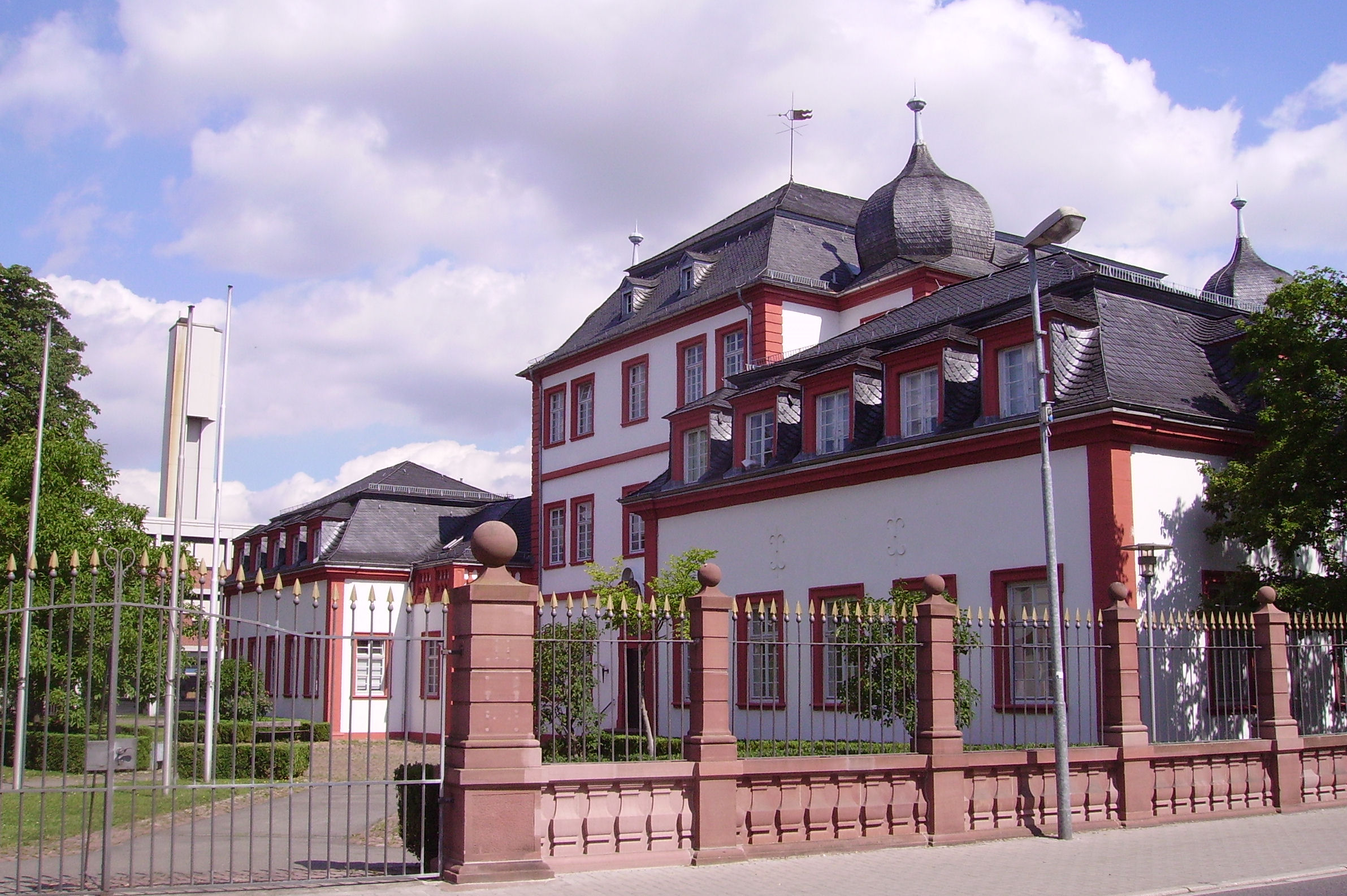 Ilvesheim, Germany